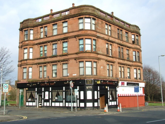 Craignestock mansions. A corner tenement at London Road (on the right) and Green Street (on the left). See also 766736 & 766746